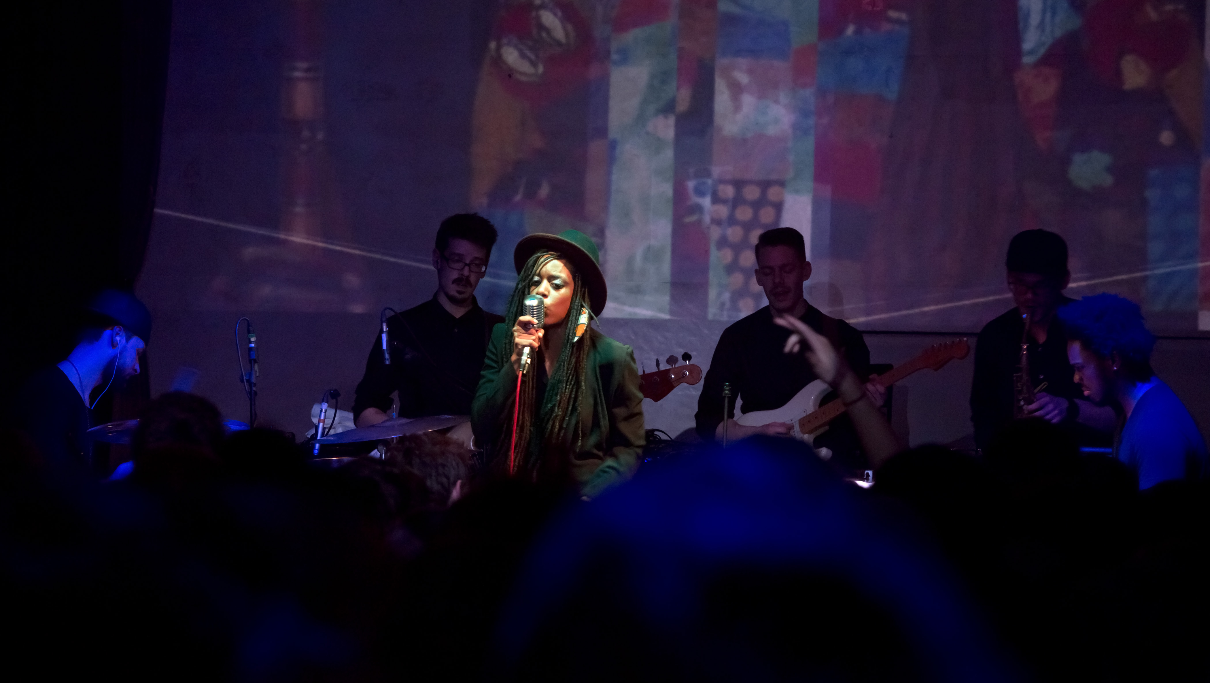 Akua Naru & The Digflo Band: "The Miner's Canary Tour", concert at Cafe Leopold at MuseumsQuartier in Vienna, Austria.